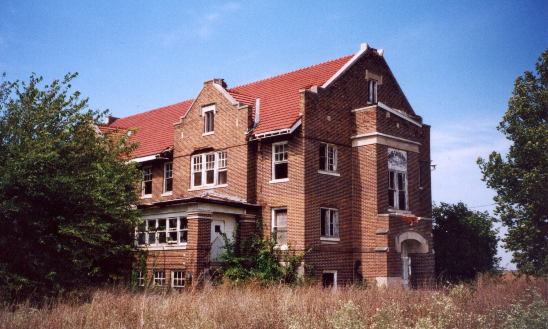 An exterior image of Ashmore Estates, formerly the almshouse at the Coles County Poor Farm.